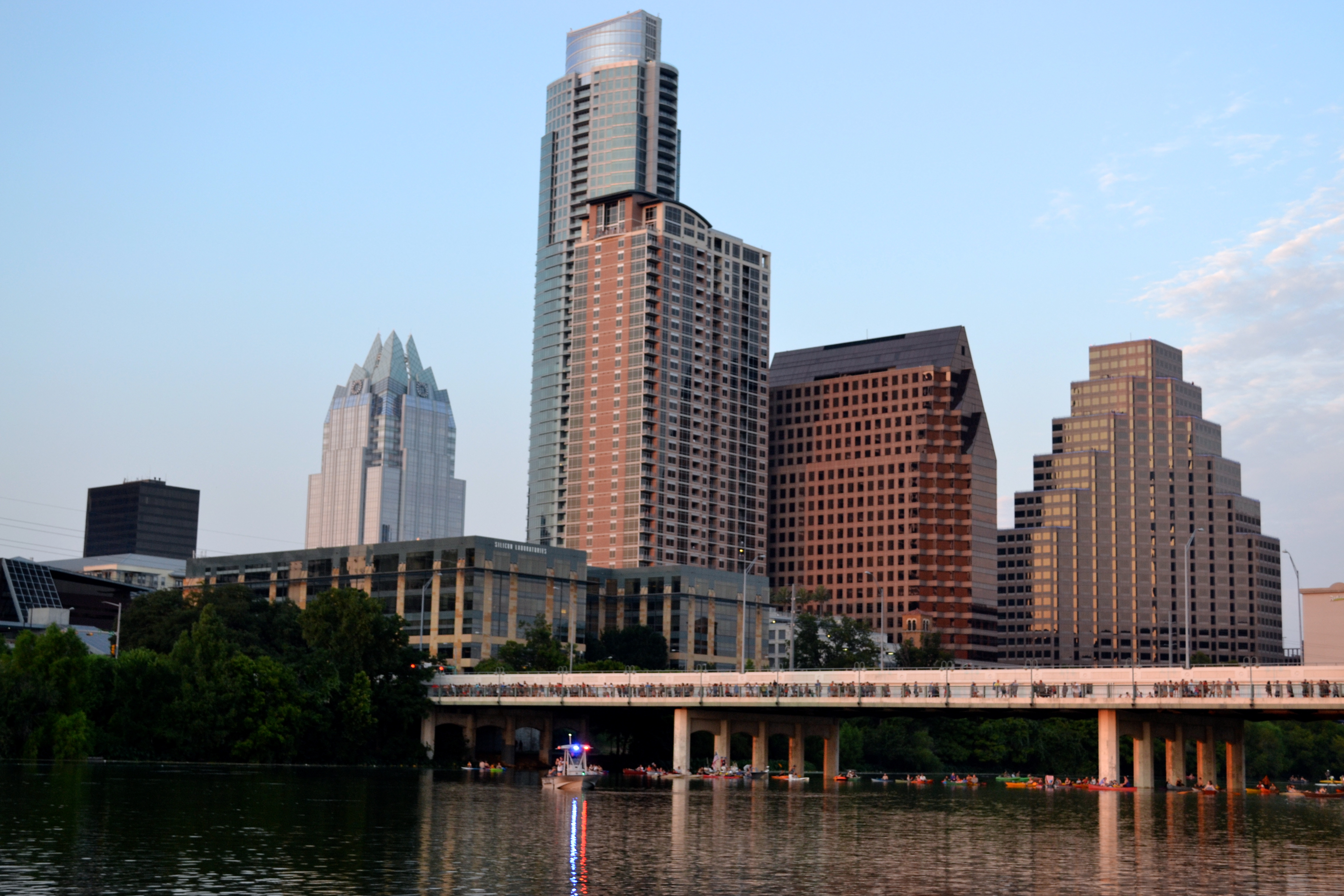 This is an image of Austin, Texas's skyline in 2013.